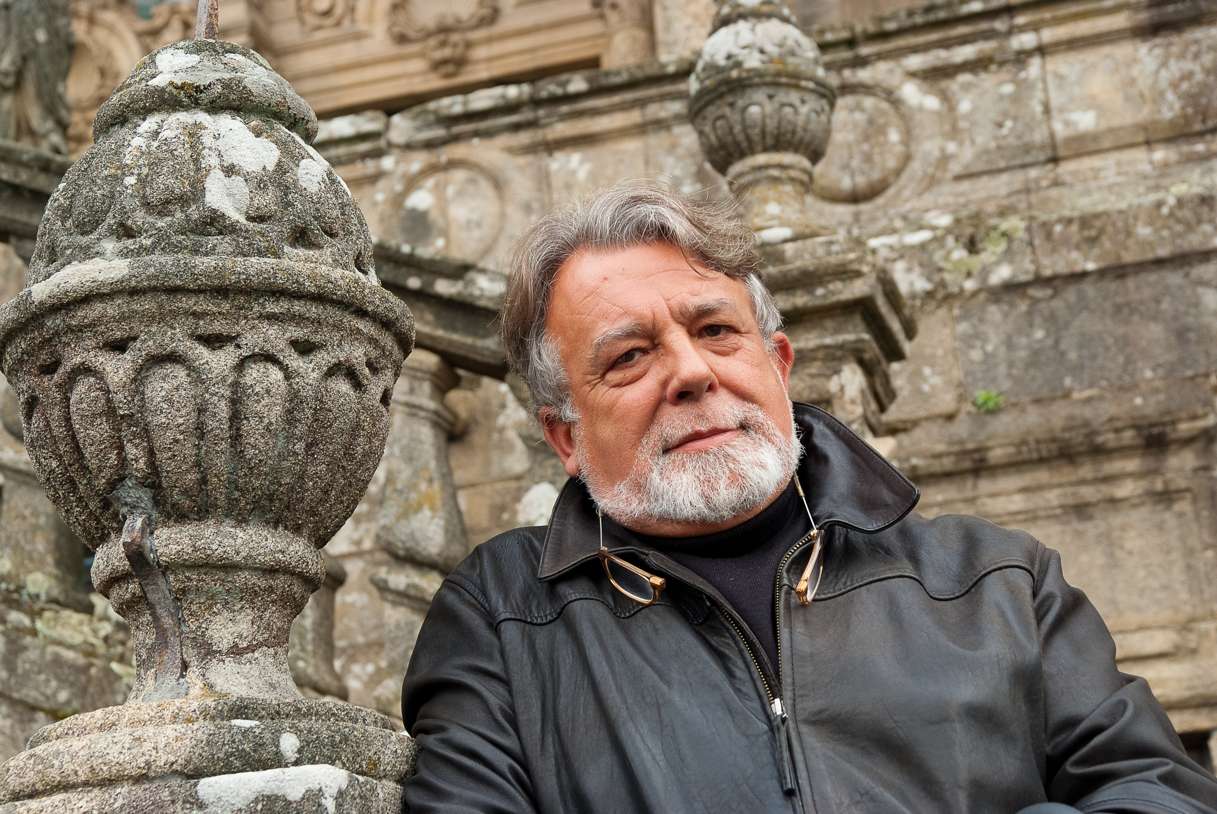 Photograph of Alfredo Conde